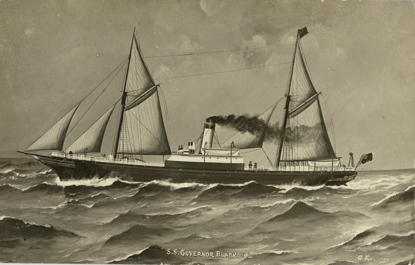 Digital order number: a637564 Call Number: PXE 722 / 1567